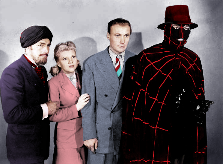 Colorized publicity still for the movie serial The Spider Returns (Columbia 1941). This image is assumed to be in the public domain due to no copyright notice being in evidence. Cropped and edited version of this file.